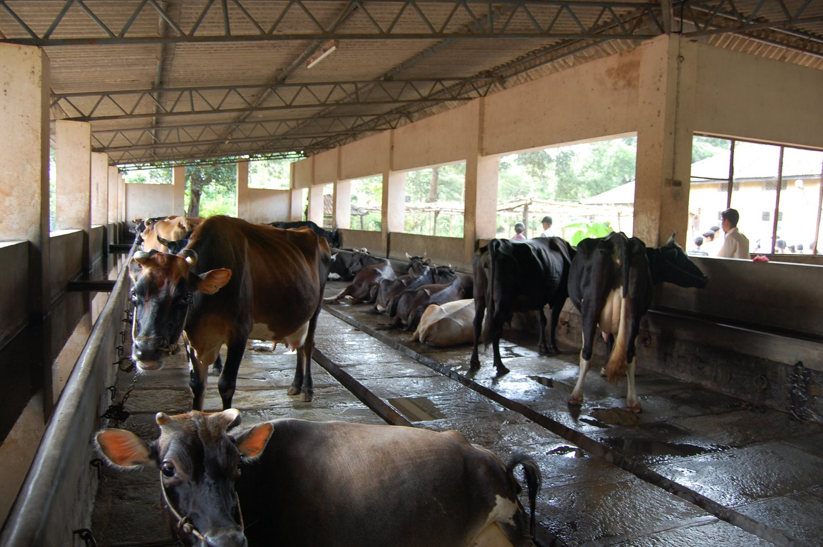 Cow Shed, Cattle Shed ಕನ್ನಡ: ಕೊಟ್ಟಿಗೆ, ದನದ ಕೊಟ್ಟಿಗೆ